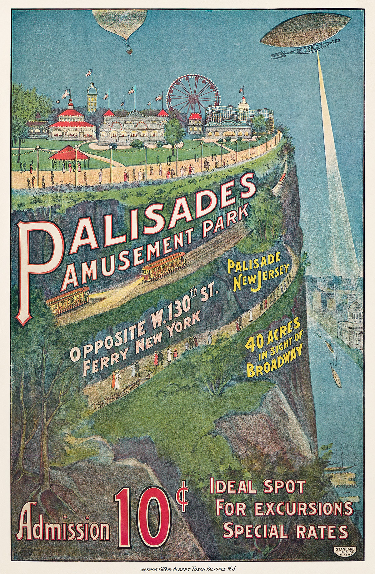 Palisades Amusement Park restored vintage poster reproduction